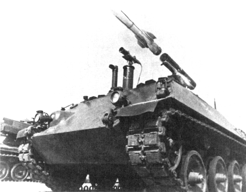 HOT missile launch from tracked combat vehicle